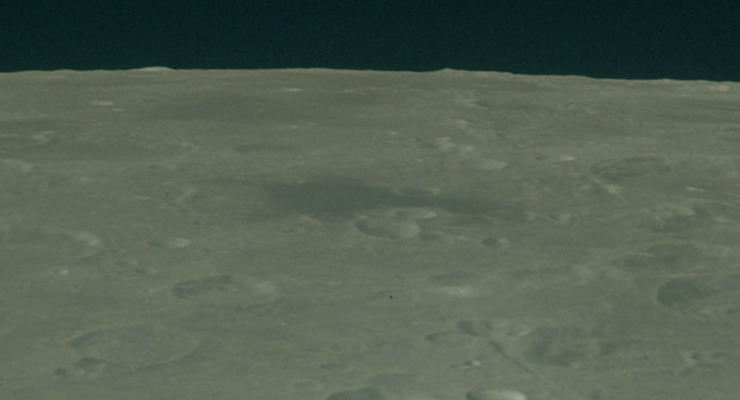 Oblique view of Lacus Spei (dark patch), on the moon. Rotated and cropped from original, and brightness and contrast adjusted.